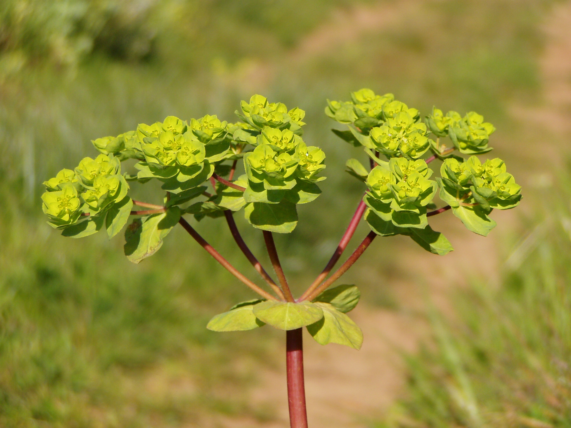 Sun Spurge. Porto de Mós, Portugal.